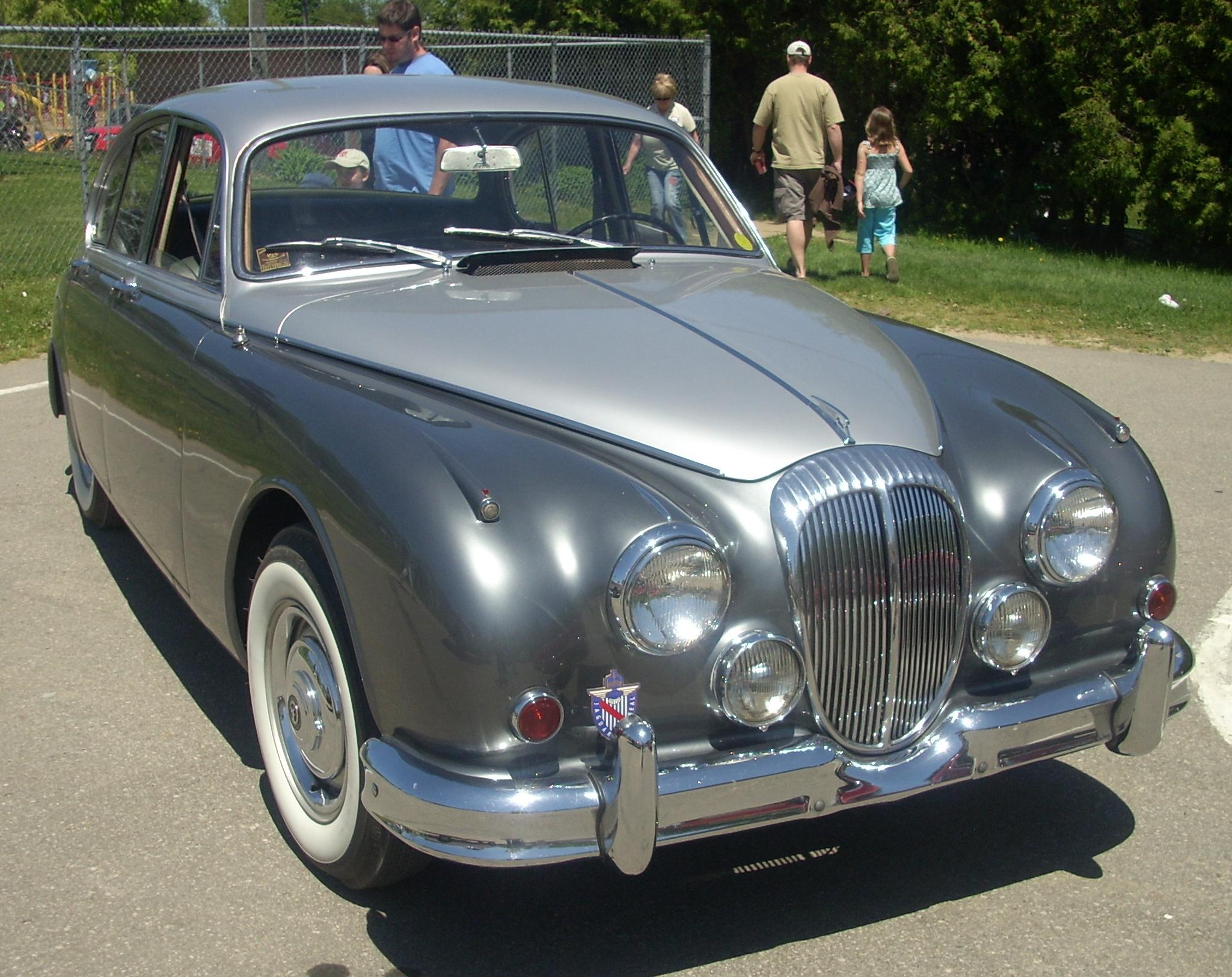 Daimler V8 photographed at the 2008 Hudson British Auto Show.